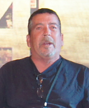 (Seated, L-R) Marilyn Burns, Teri McMinn, William Vail, Ed Neal, John Dugan, Ed Guinn, Allen Danziger from the TCM panel at Days of the Dead Indianapolis 2012.